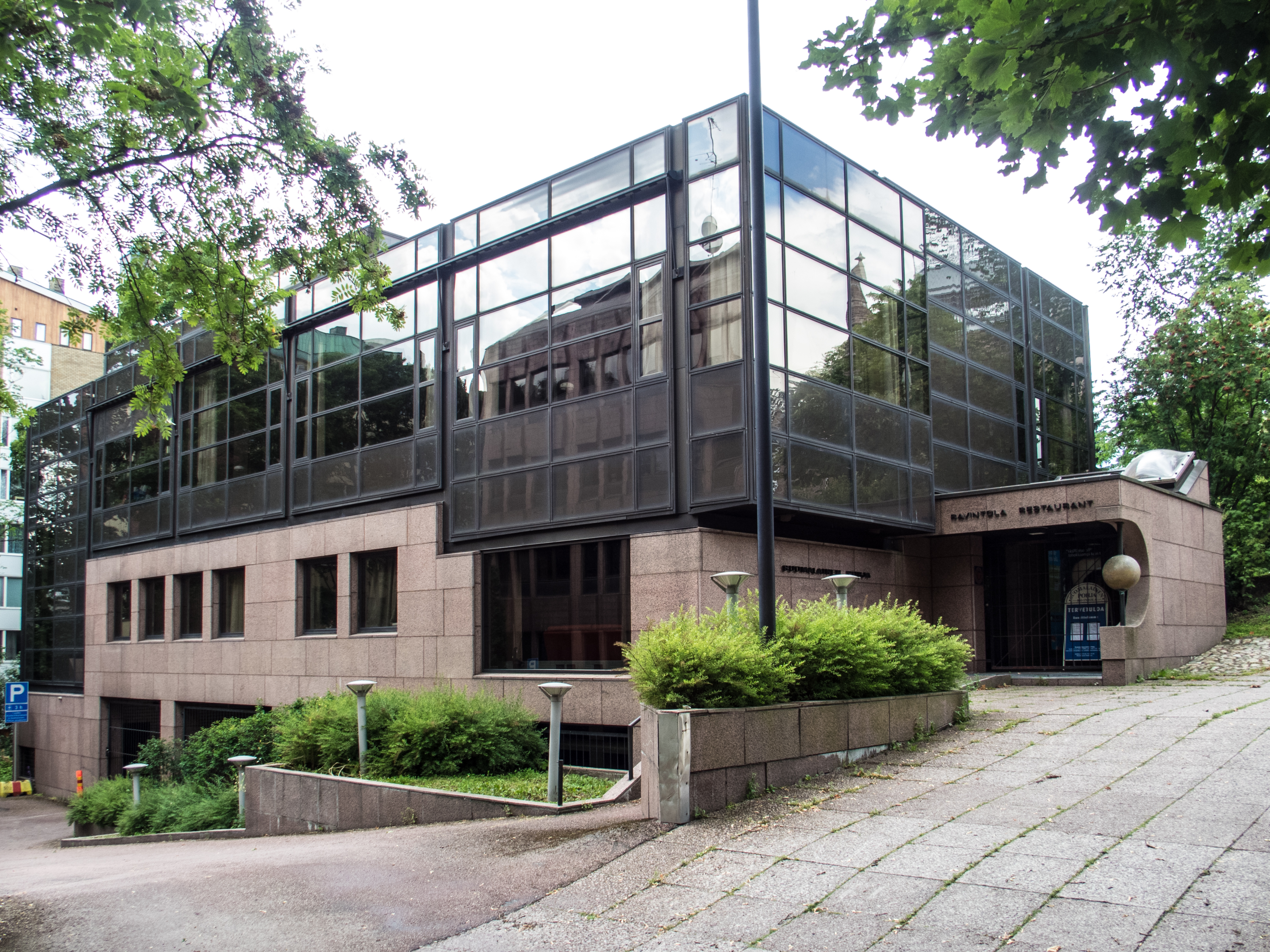 Suomalainen Pohja, club restaurant for nationalistic club of the same name, architect Sigvard Eklund, interior by sir Georg Salmon, 1980. Intersection of Aurakatu and Puutarhakatu, Turku, Finland.